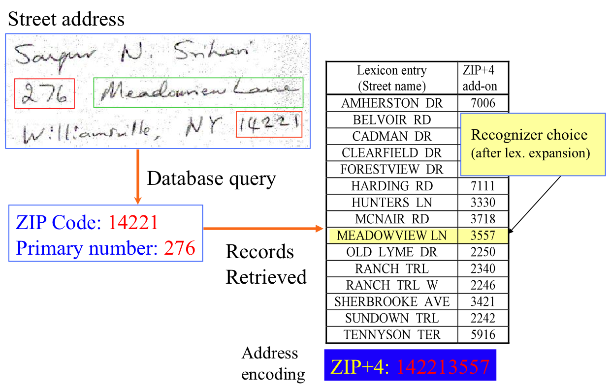 A image displaying the address recognition system work.